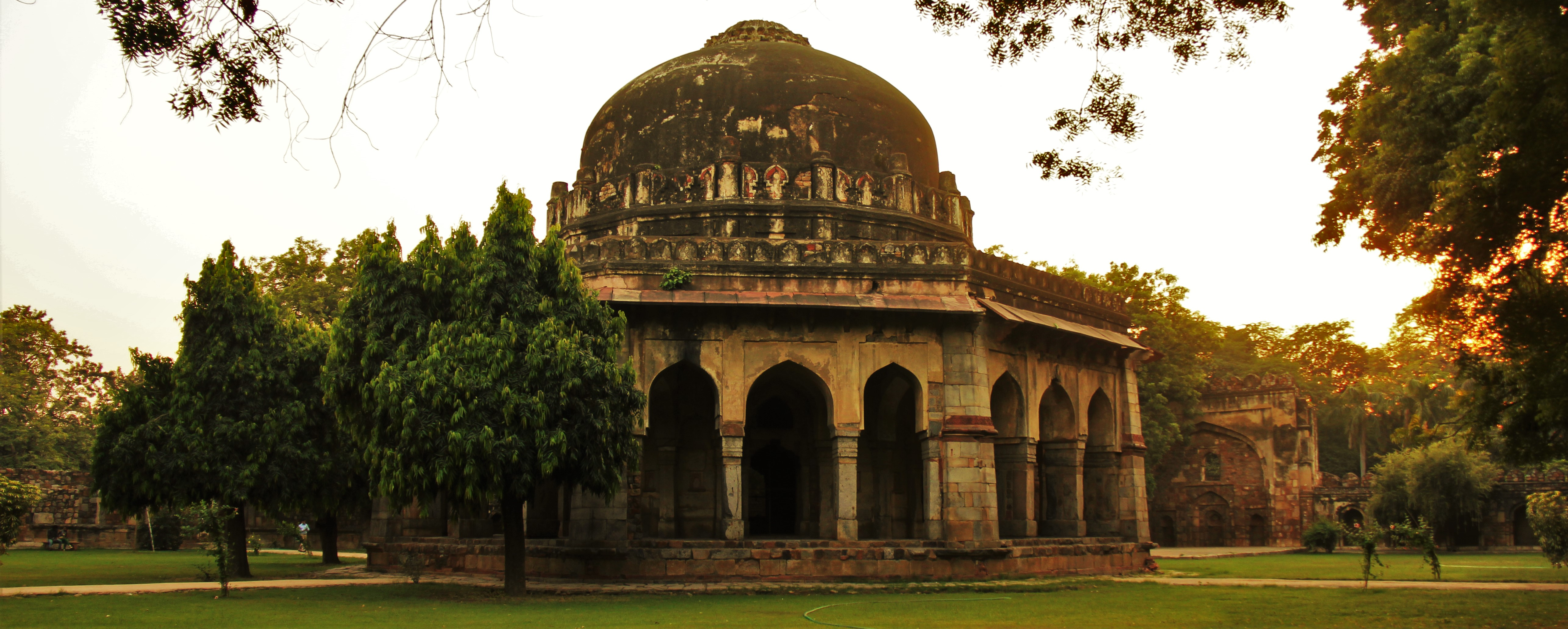 Sikandar Lodi's tomb in Lodhi Gardens, Delhi